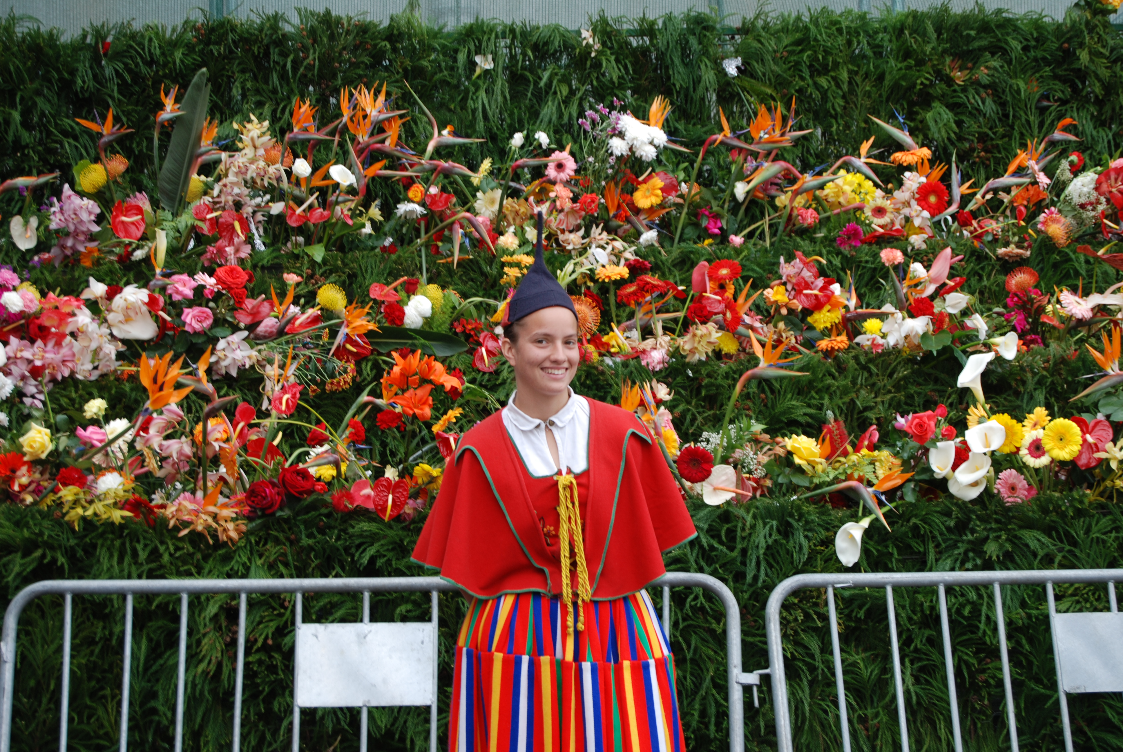 Girl in traditional dress during the Flower Festival, Funchal, Madeira, Portugal